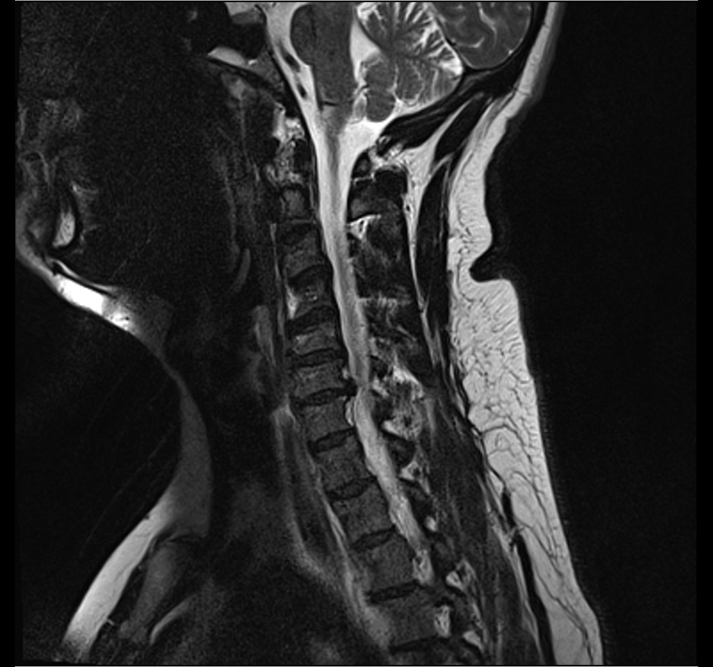 MRI Scan showing herniation of a cervical disc at C6-C7